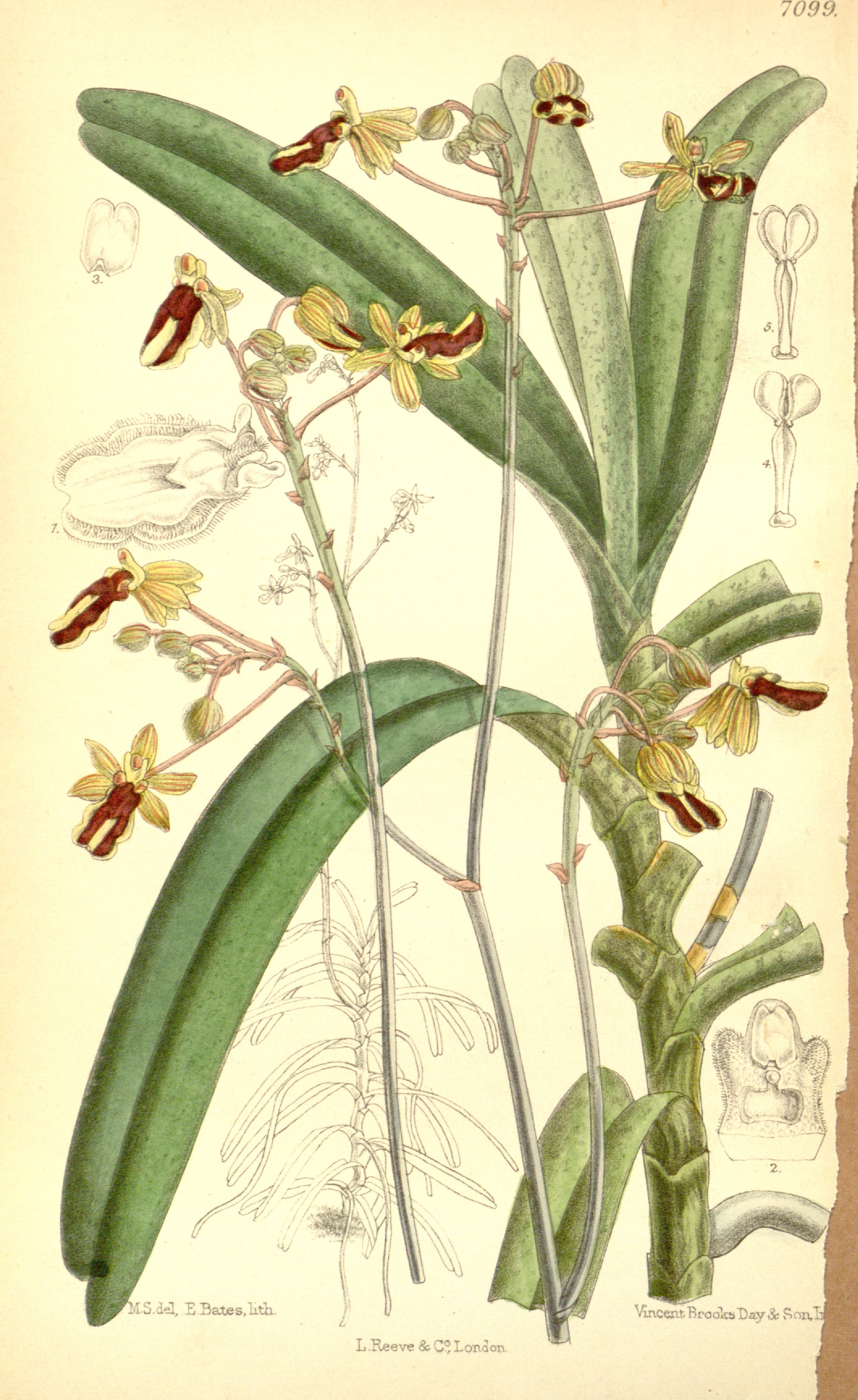 Illustration of Cottonia peduncularis (as syn. Cottonia macrostachya)